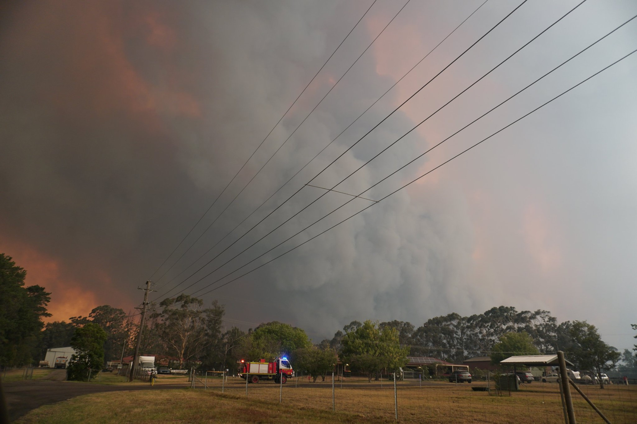 Fire and Rescue NSW firefighters move into Braddocks Road at Werombi to protect properties from the out of control Green Wattle Creek bushfire in South West Sydney